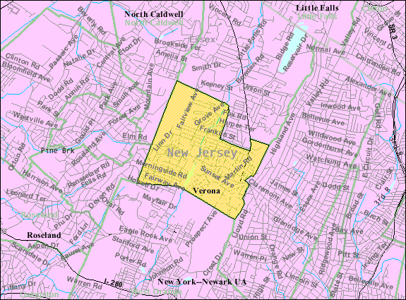 Census Bureau map of Verona